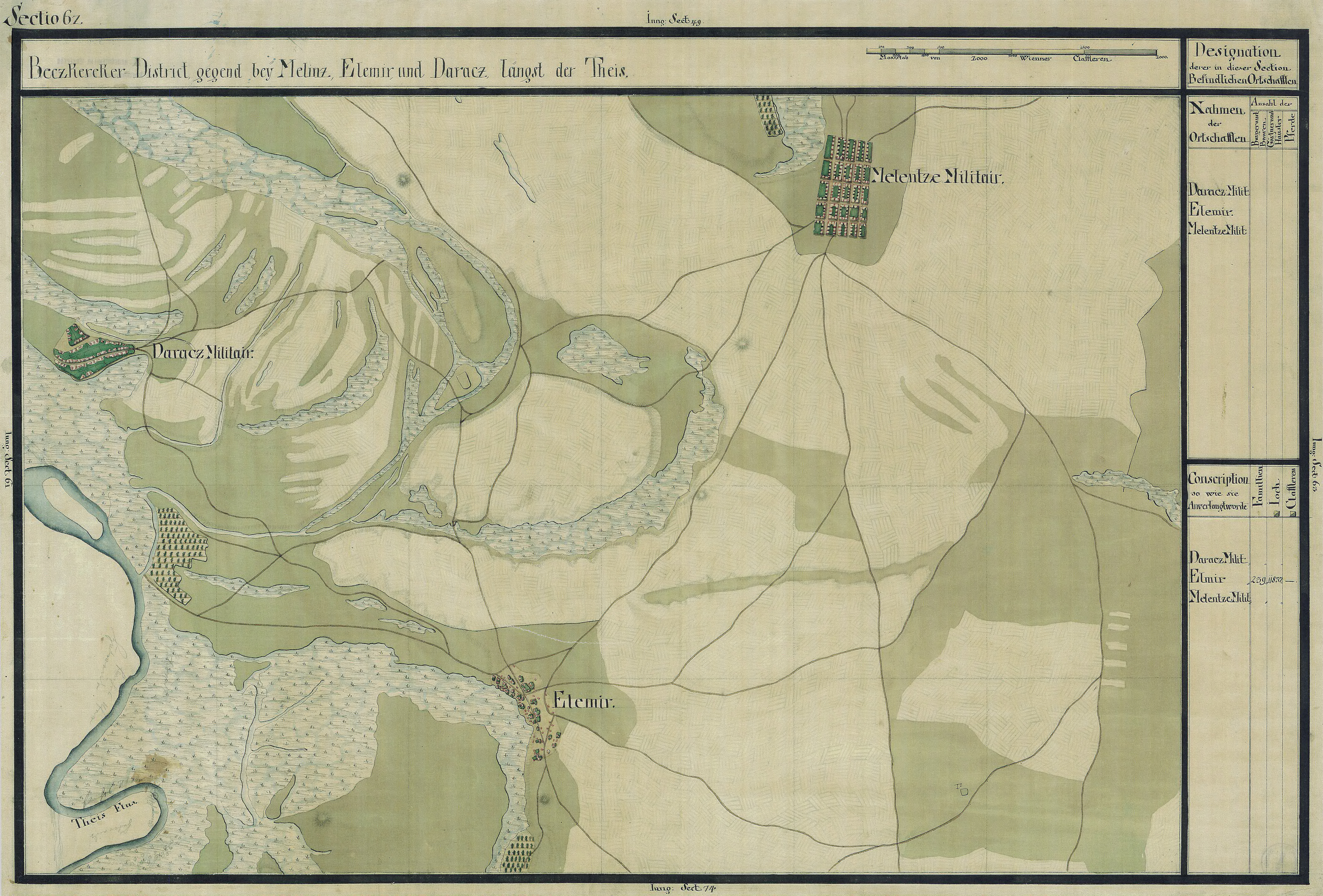 The Banat region in the cadastral maps: Josephinische Landesaufnahme, 1769-72. Josephinische Landaufnahme pg062